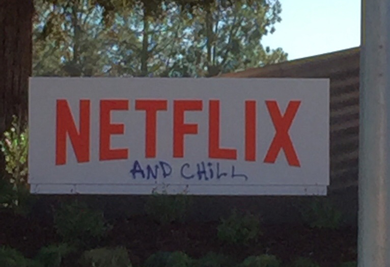 Netflix and Chill Graffiti at Netflix Headquarters in Los Gatos, California in 2015. I reached out via email and Reddit private message to the copyright holder and he licensed it under a Creative Commons Attribution-Sharealike 3.0 Unported License. I have sent an email containing this correspondence to "permissions-commons AT wikimedia DOT org"